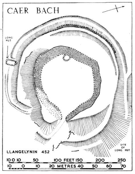 Plan of Welsh hillfort, Caer Bach